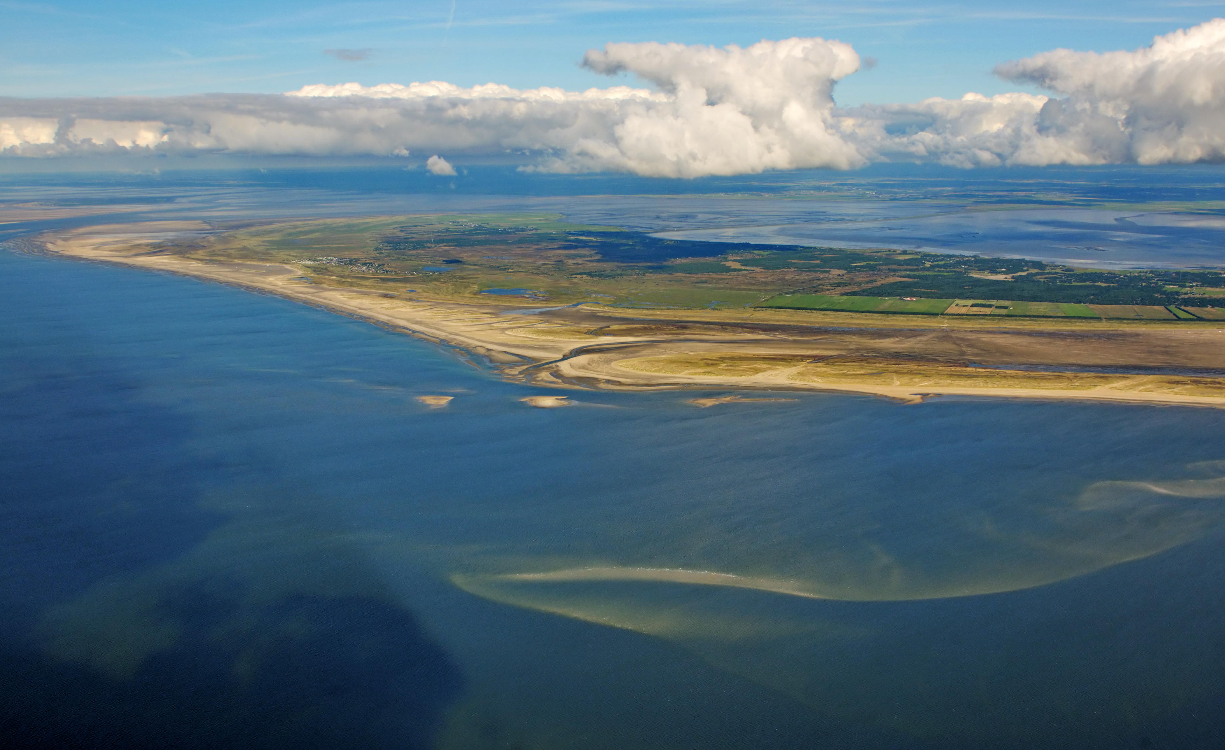 View from SSW over Rømø towards danish mainland